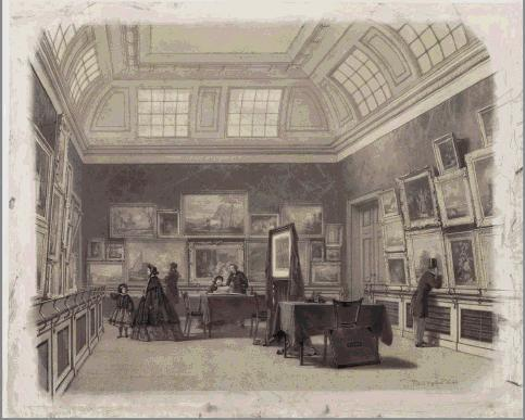 Teylers Painting Gallery I, 1862